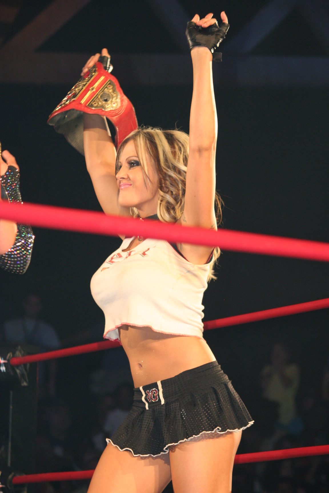 Professional wrestler Velvet Sky with a TNA Knockout Tag Team Championship belt at a TNA Impact! taping